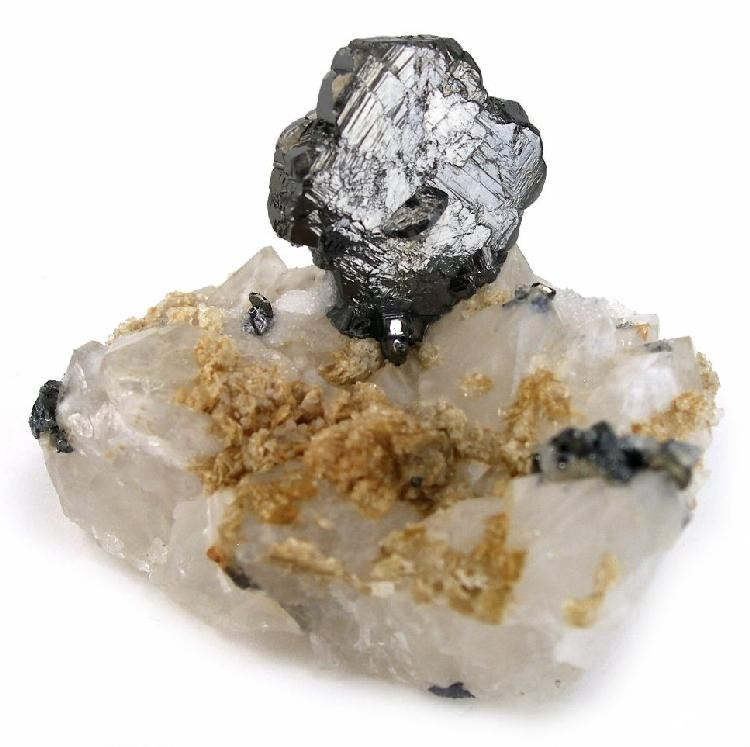 Bournonite, Quartz Locality: Herodsfoot Mine (North Herodsfoot Mine), Lanreath, Menheniot Area, Liskeard District, Cornwall, England, UK (Locality at ) Size: 5 x 4.5 x 4.5 cm. I had never before seen, in person, a Cruciform twinned bournonite. However, I had read about them occurring in the mid 1800s at this classic mine for the species, long known as the world's finest source of bournonite. This was purchased in the 1980s and stashed away in Richard Kosnar's collection. This is a superb miniature. Ex. Richard Kosnar Collection.